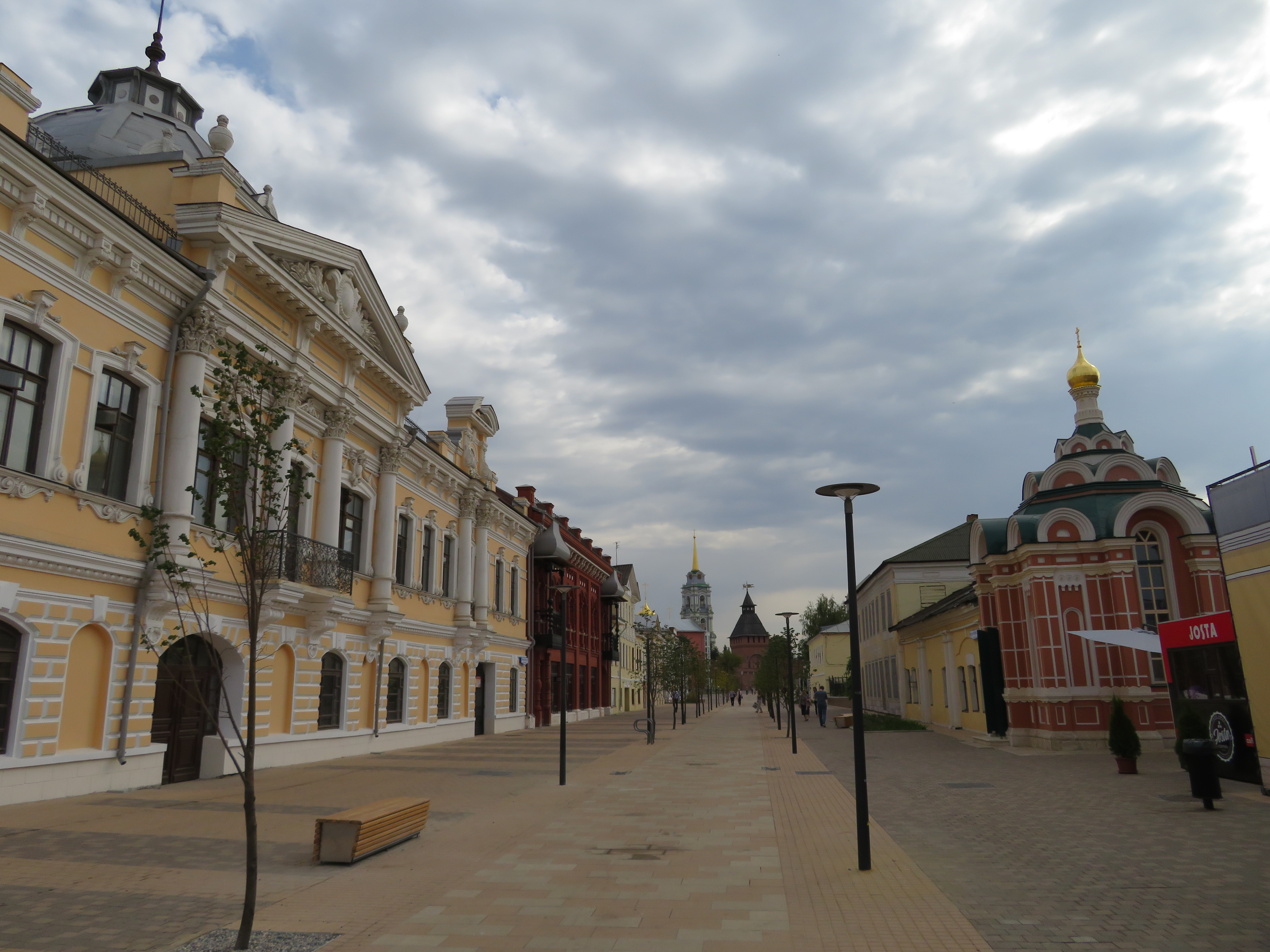 Metallistov street in Tula on 11 September 2018. View towards the Tula Kremlin